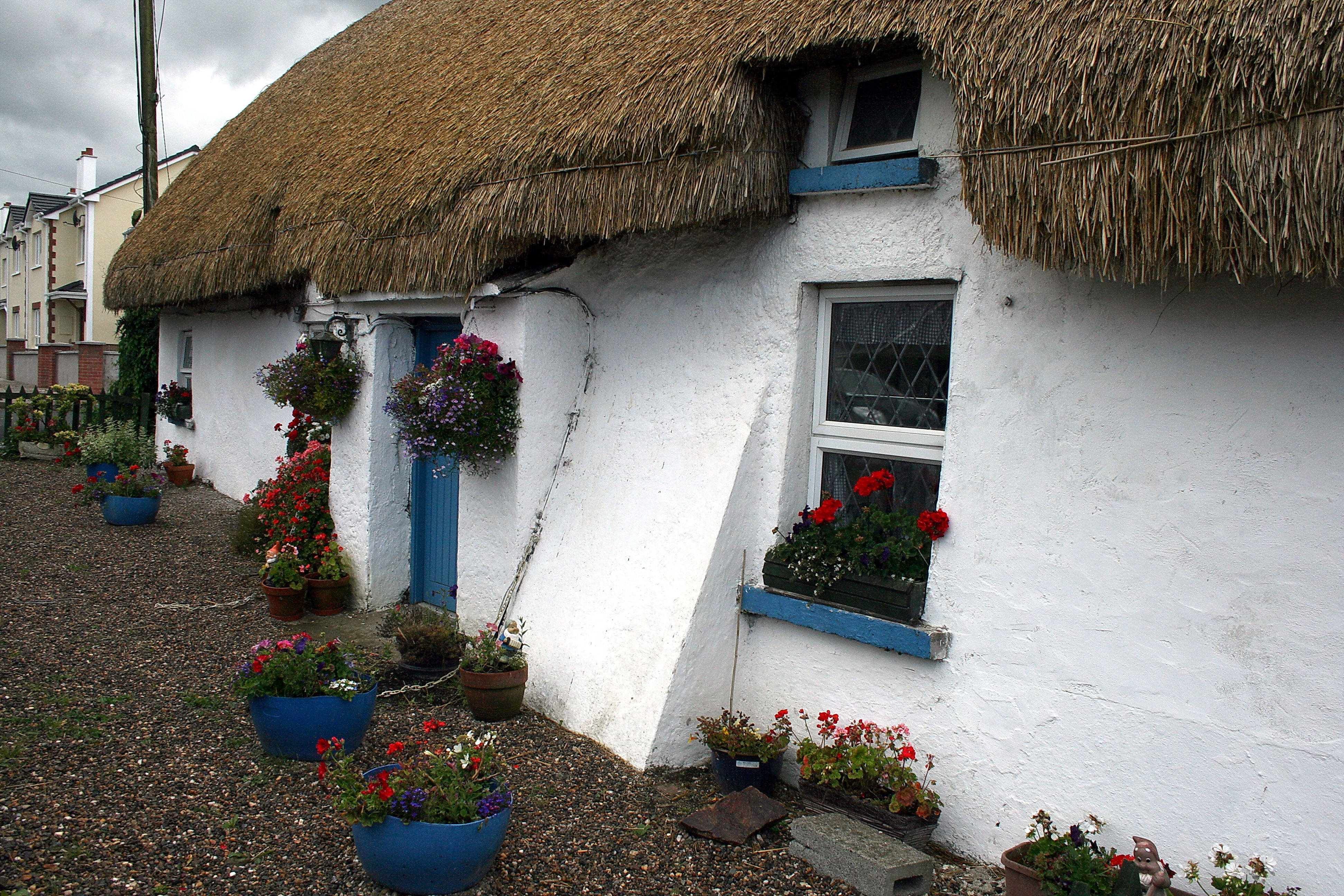 Thatched house on the R741 road, through Ballyedmond, County Wexford, Ireland